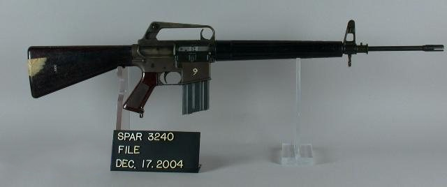 ArmaLite AR-15 with flash hider and early 25-round magazine